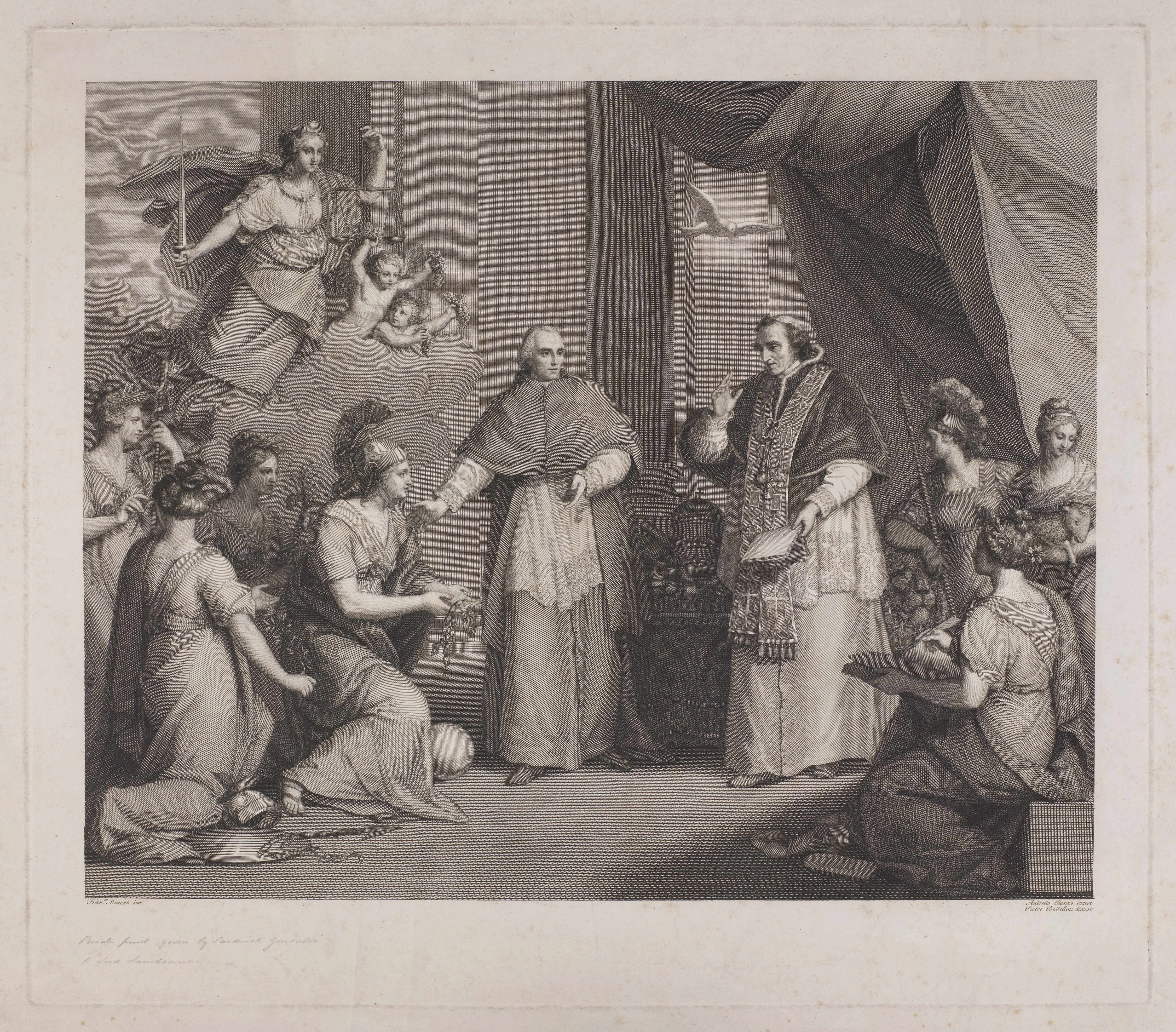 The restoration of Rome and the Papal Legations by Cardinal Consalvi to Pope Pius VII after the defeat of Napoleon. Engraving by A. Banzo after F. Manno Iconographic Collections Keywords: name VII,; Antonio Banzo; Francesco Manno; Ercole Consalvi; Pietro Bettelini